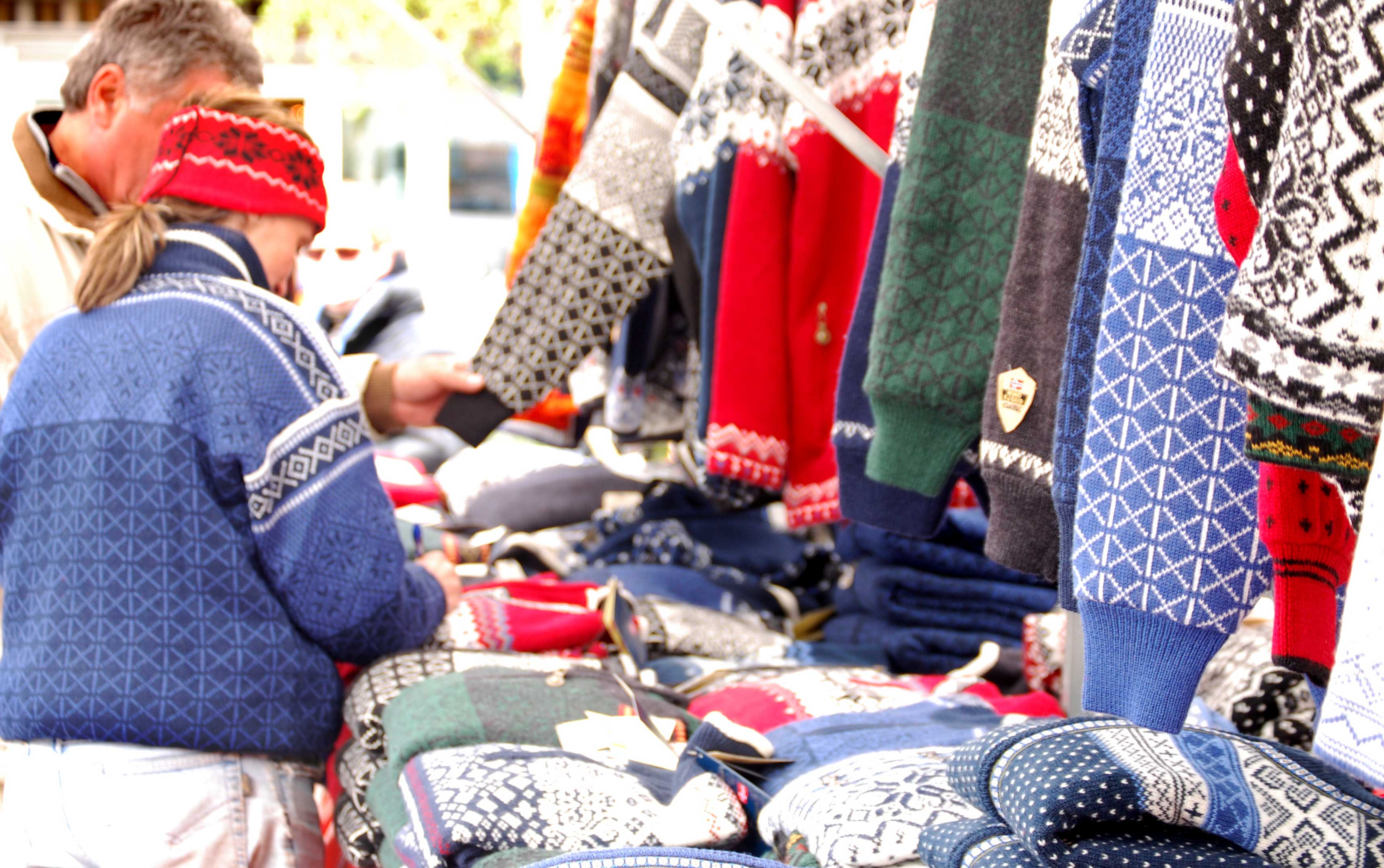 Sale of knitwear on Tromsø's main square.